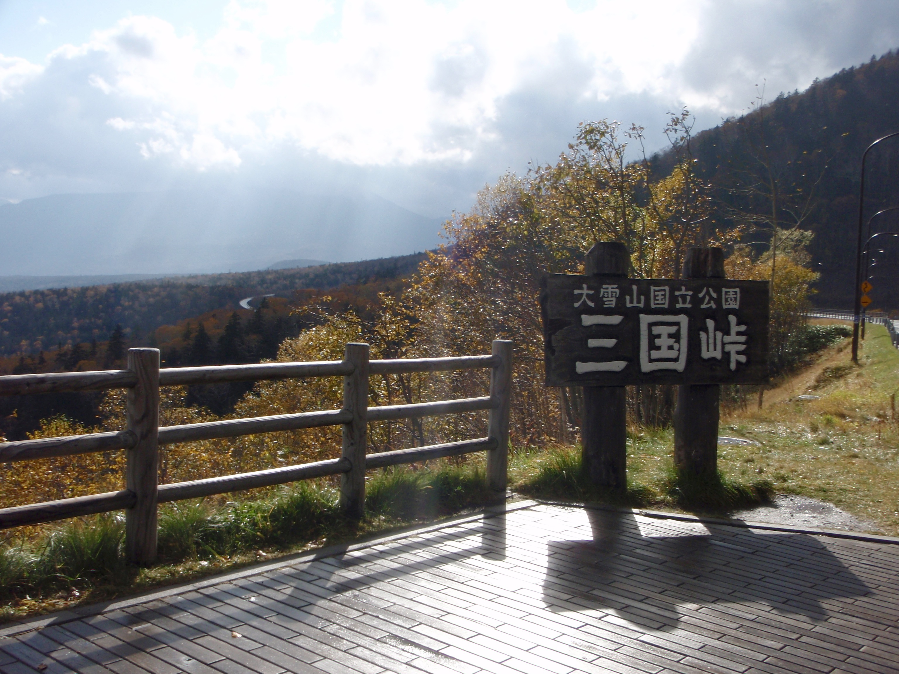 Mikuni pass in Kamishihoro, Hokkaido, Japan. It is on the Japan National highway Route 273.